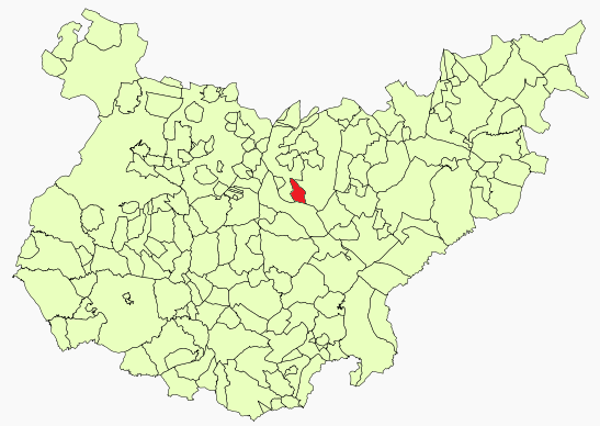 Manchita